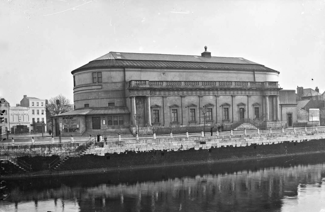 Cork Opera House 1880-1900